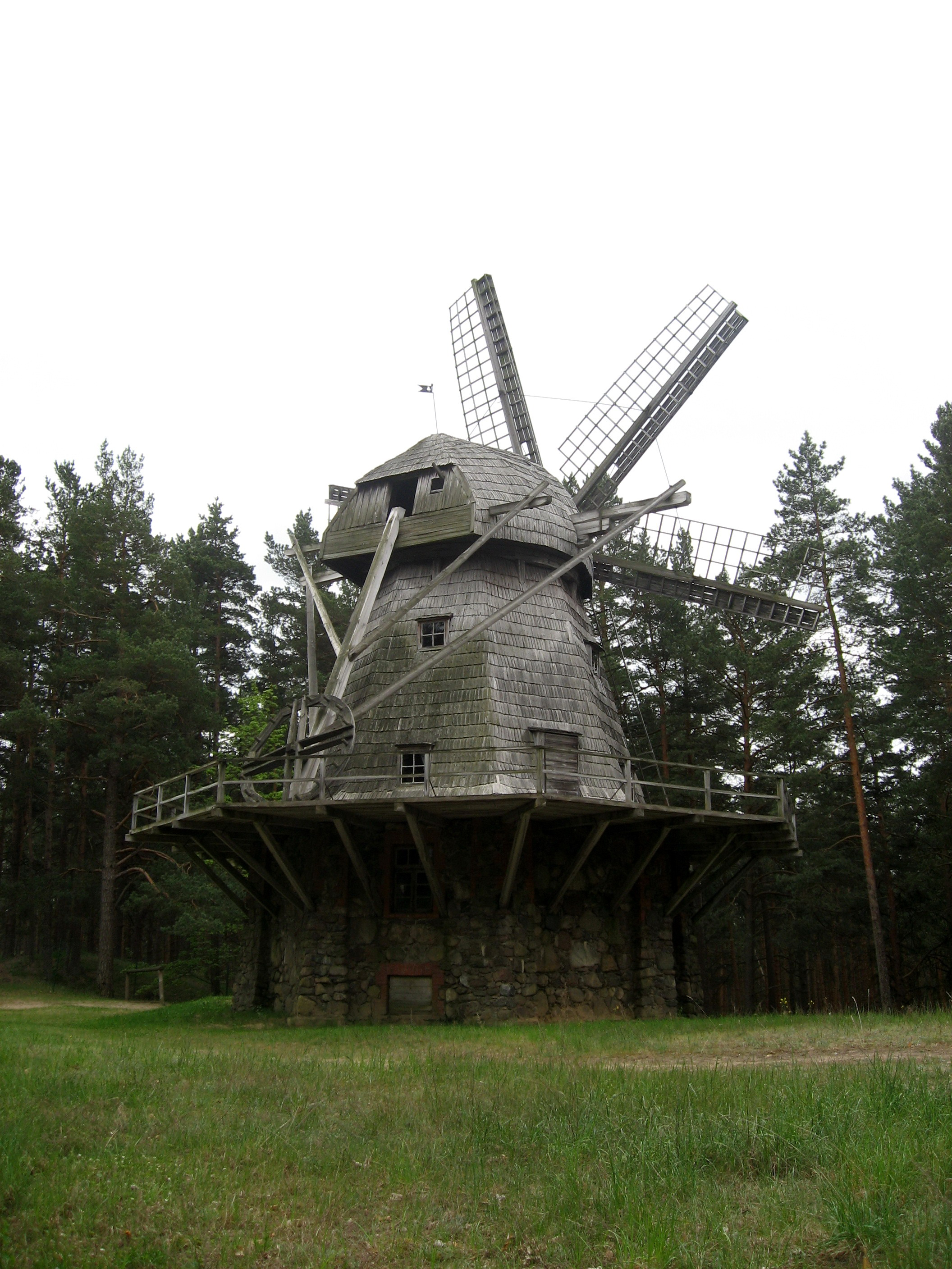 Historic latvian smock mill, rebuilt near Berģi at the Latvian Ethnographic Open Air Museum